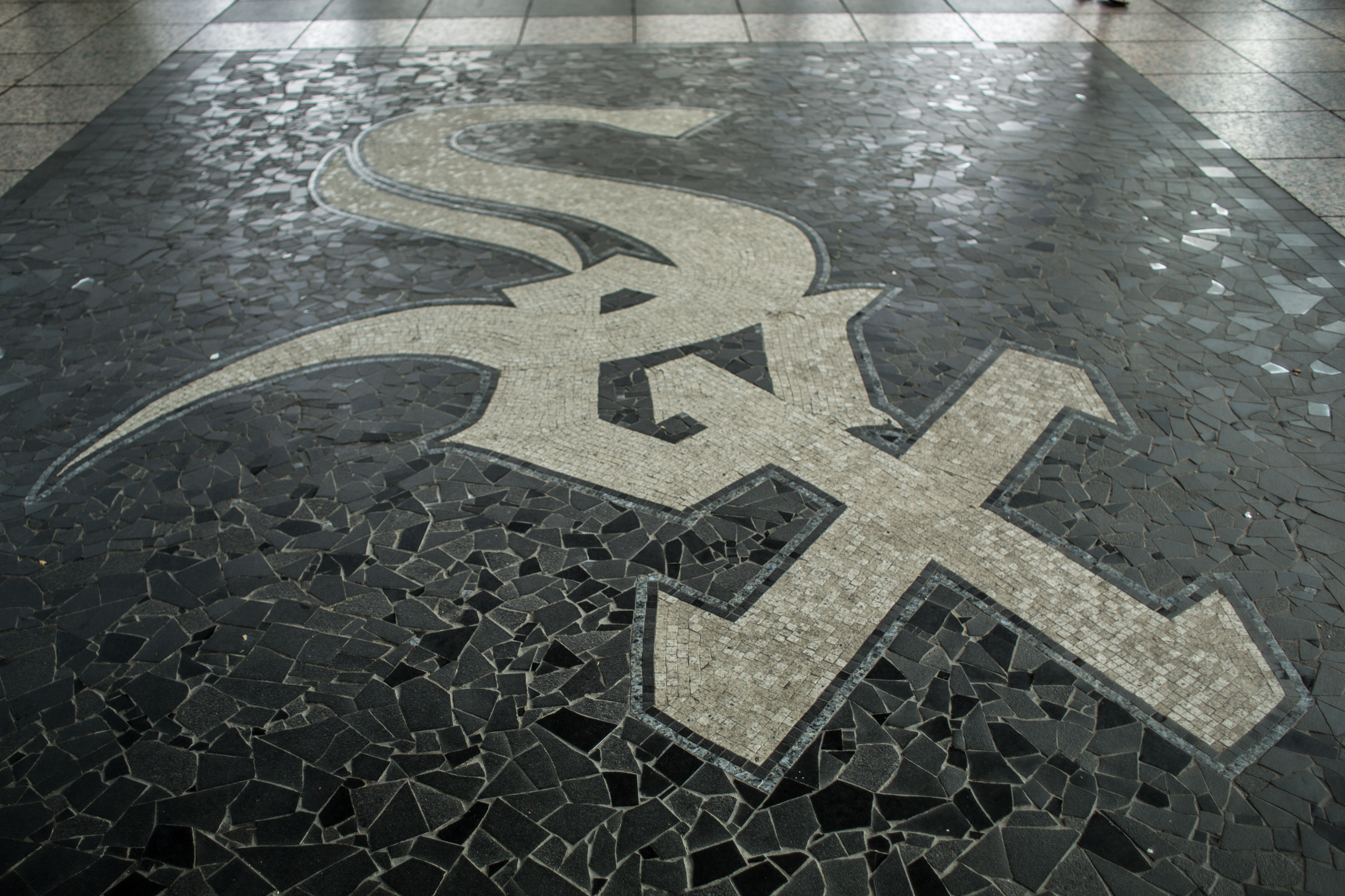 Tile floor SOX on 35th street EL station Chicago 2015-123